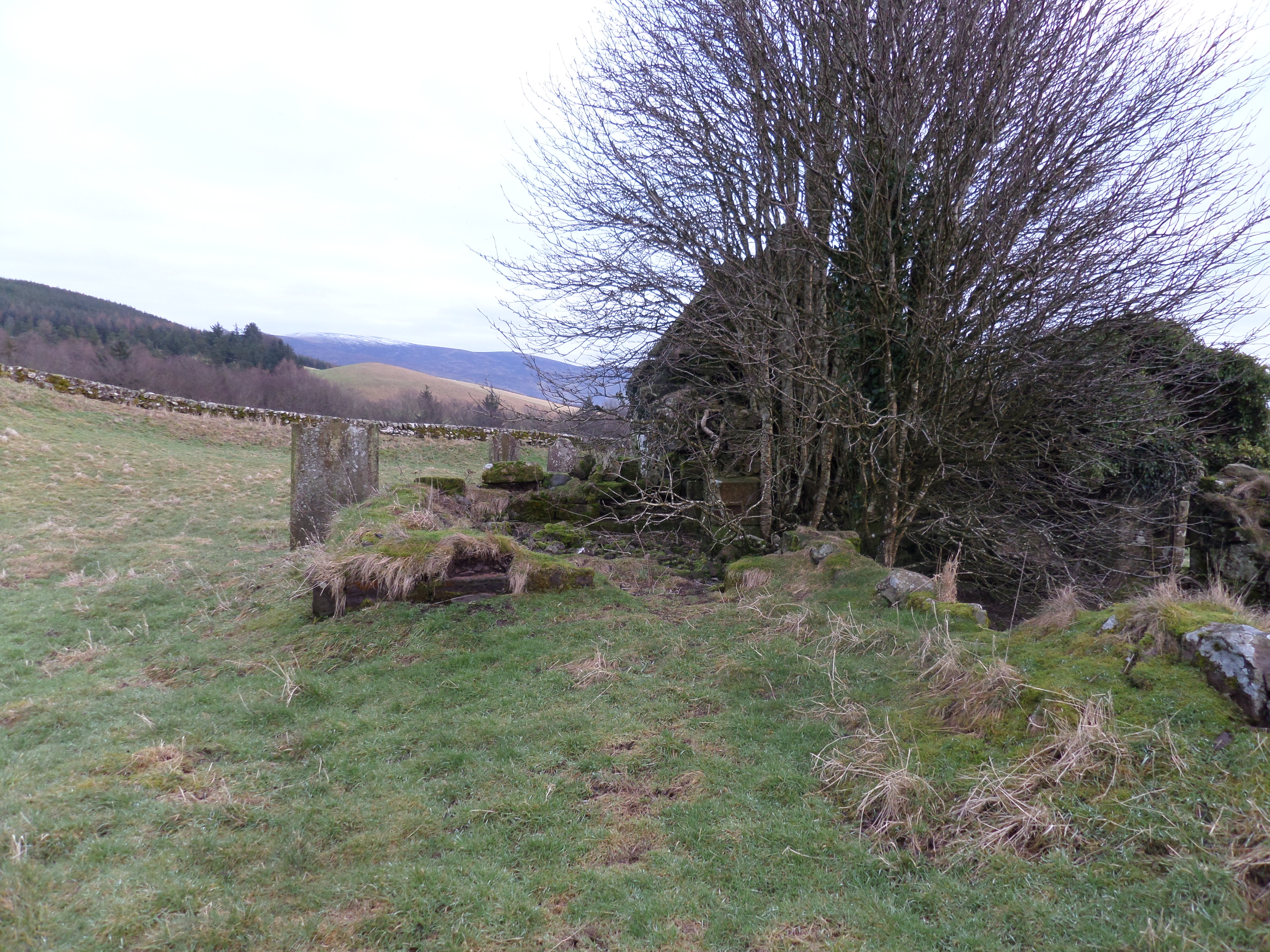 Kirkbride, Enterkinfoot, Nithsdale - looking south east at the sacristy and ruined old parish church.